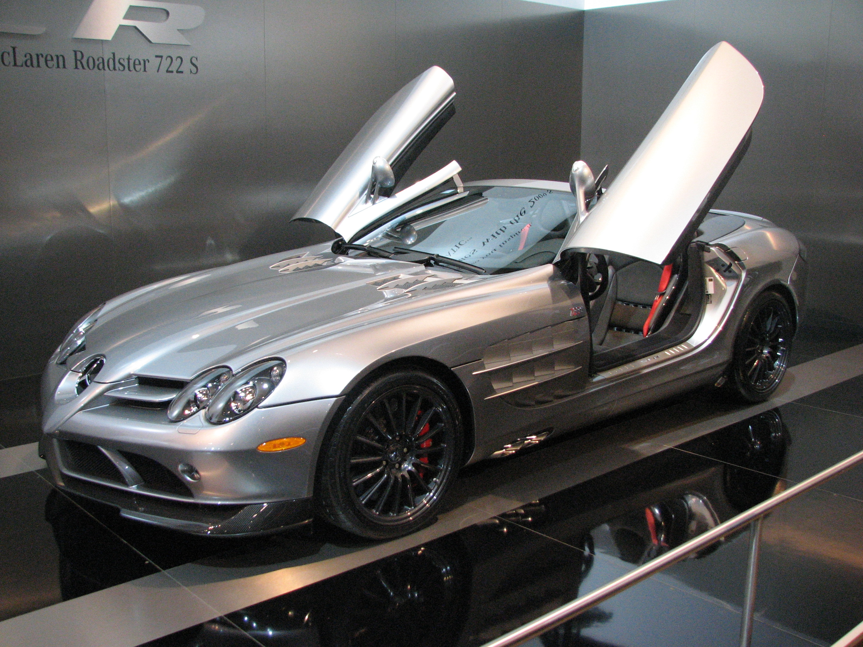 SLR Mclaren 722 Roadster at Toronto Auto Show